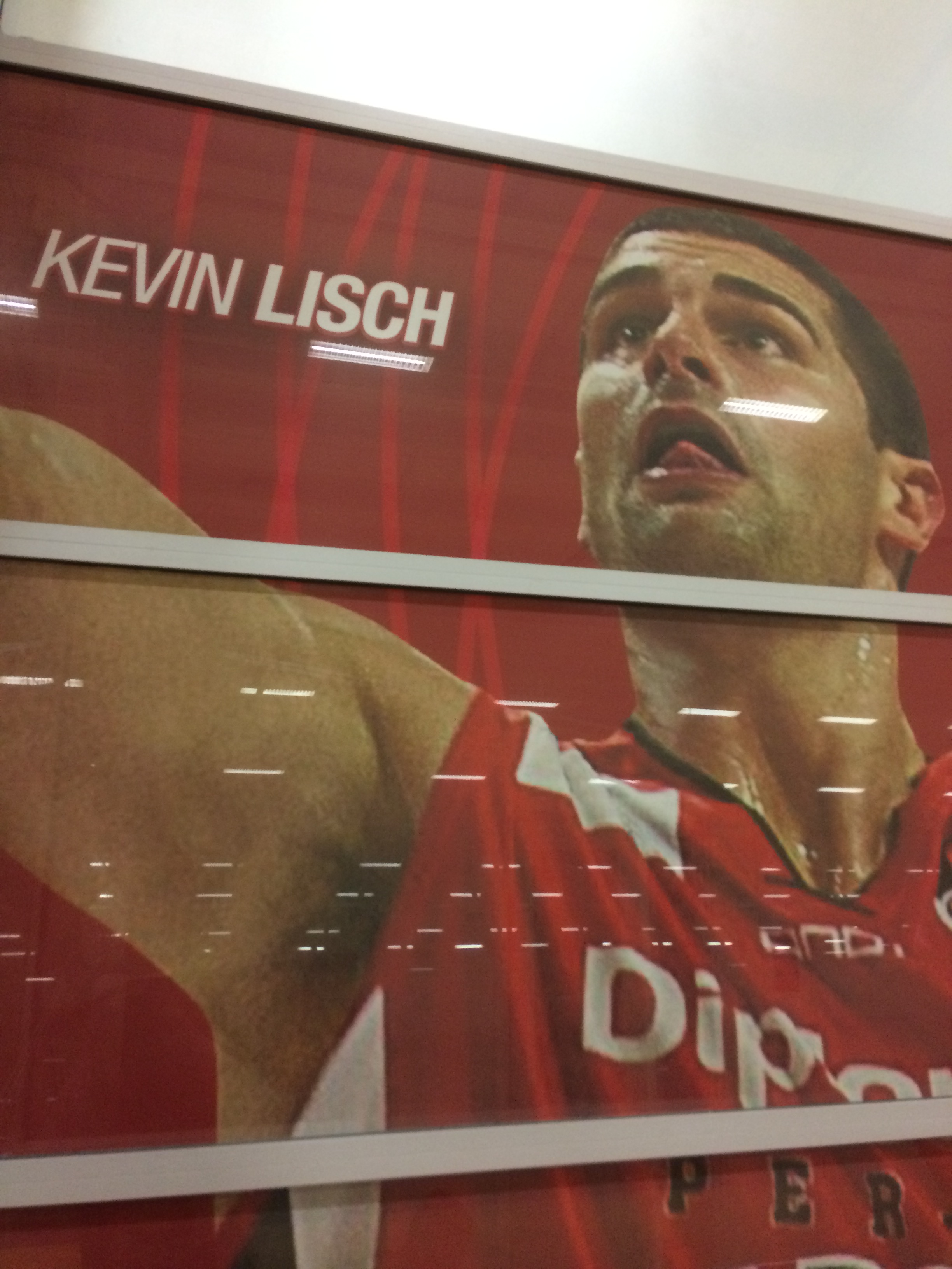 Kevin Lisch, as window art at Bendat Basketball Centre